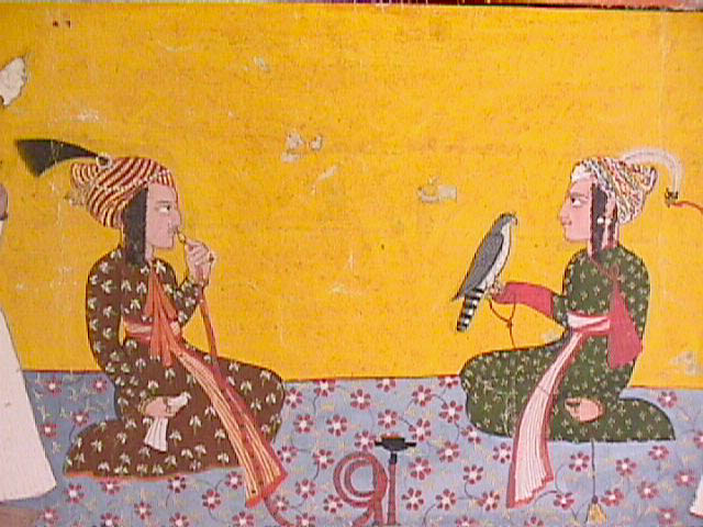 Creation Date: ca. 1720 Display Dimensions: 7 7/32 in. x 10 25/32 in. (18.3 cm x 27.4 cm) Credit Line: Edwin Binney 3rd Collection Accession Number: 1990.1178 Collection: The San Diego Museum of Art